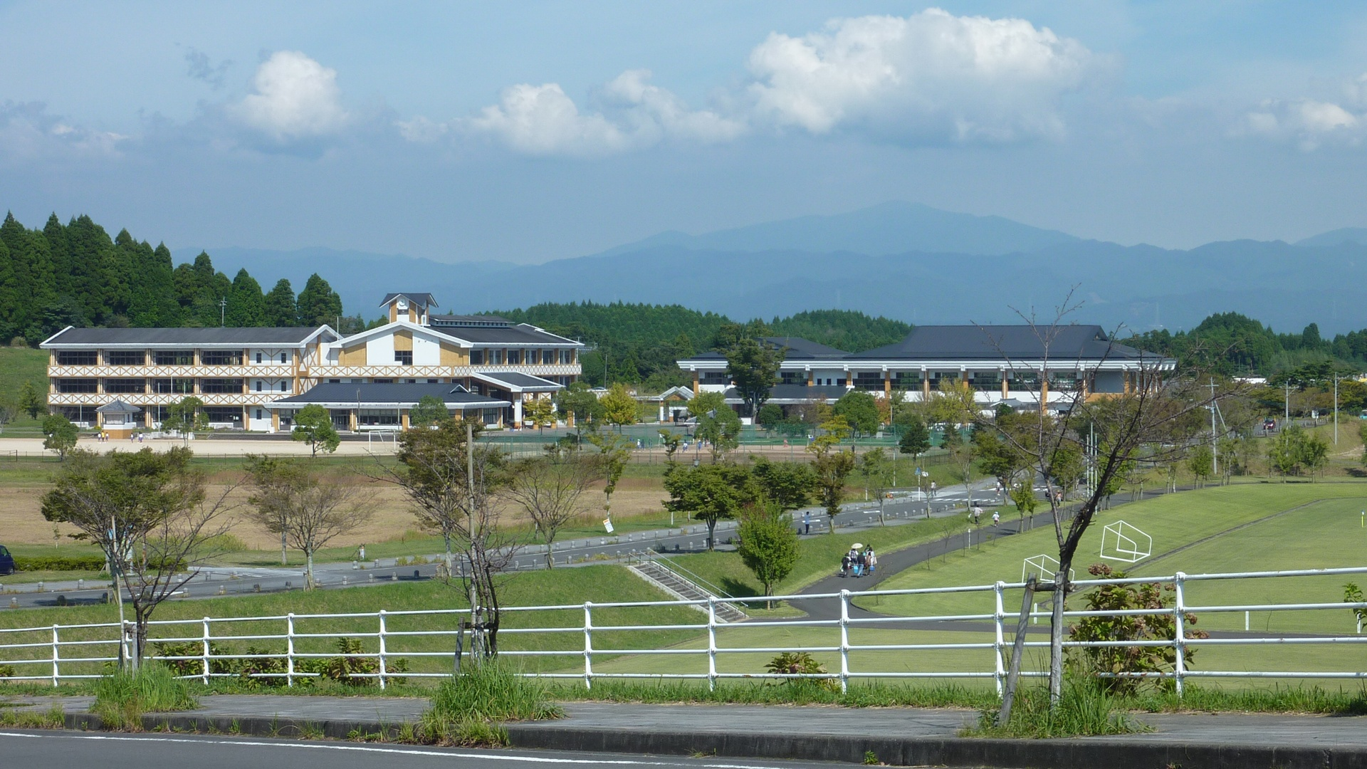 Takaharu Junior High School (Takaharu Town, Miyazaki Prefecture, Japan)